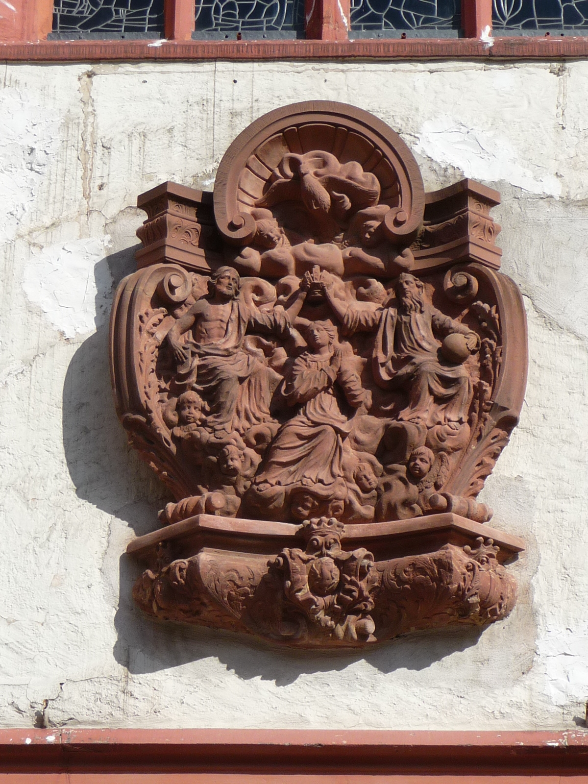 Karmeliterkirche (Mainz), bas-relief or low relief of the Assumption of Mary or Coronation of the Virgin, over the main entrance of the Mainz Carmelite Church. Originally affixed as ornament to the Mainz Cathedral Provost's office of 1738, recovered after its destruction in 1793 and 1924, reinstalled in the Carmelite church.